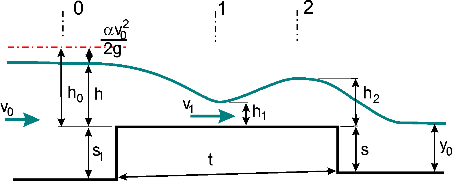 broad-crested weir